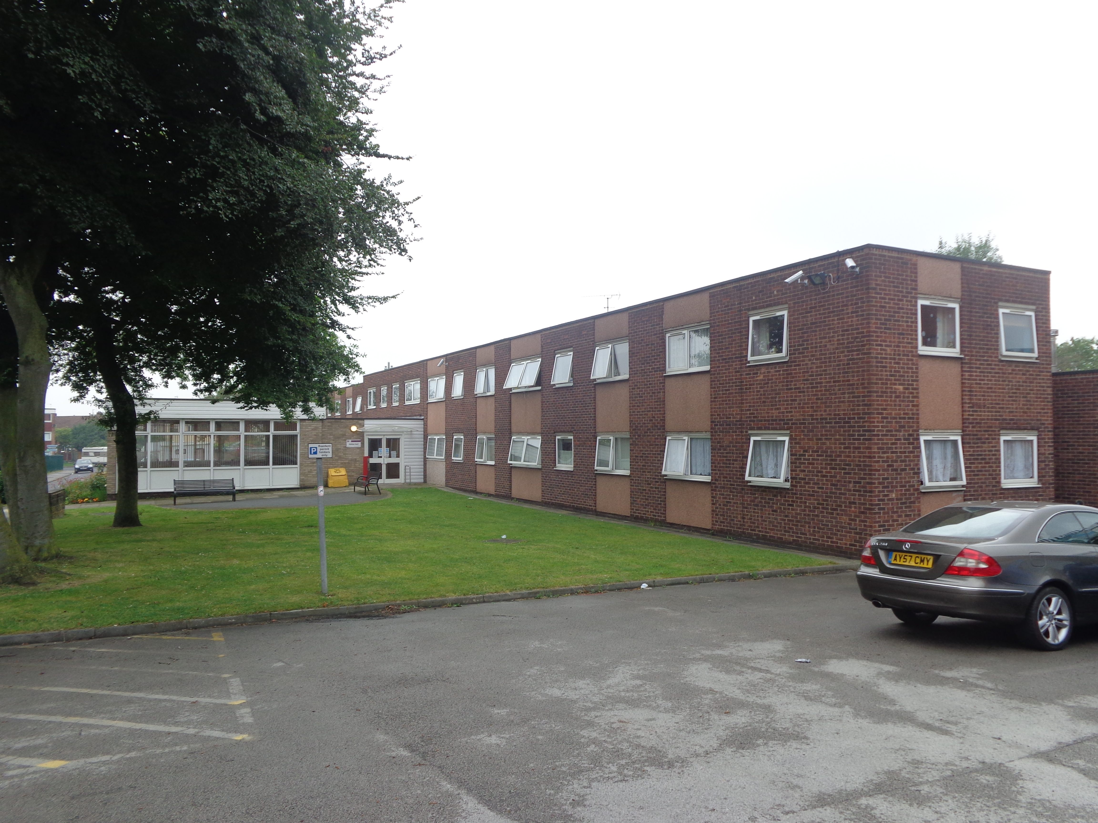 Halliday Court sheltered accommodation, Halliday Court, Garforth, West Yorkshire. Taken on the afternoon of Saturday the 19th of July 2014.